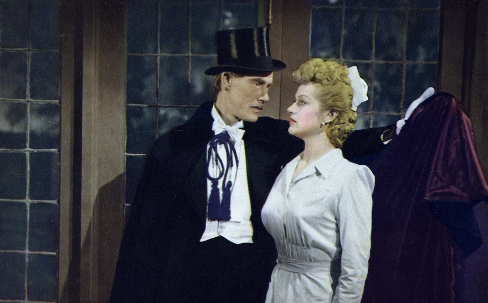 House of Dracula lobby card featuring John Carradine as Dracula. Image is assumed to be in the public domain as no copyright notice is in evidence.